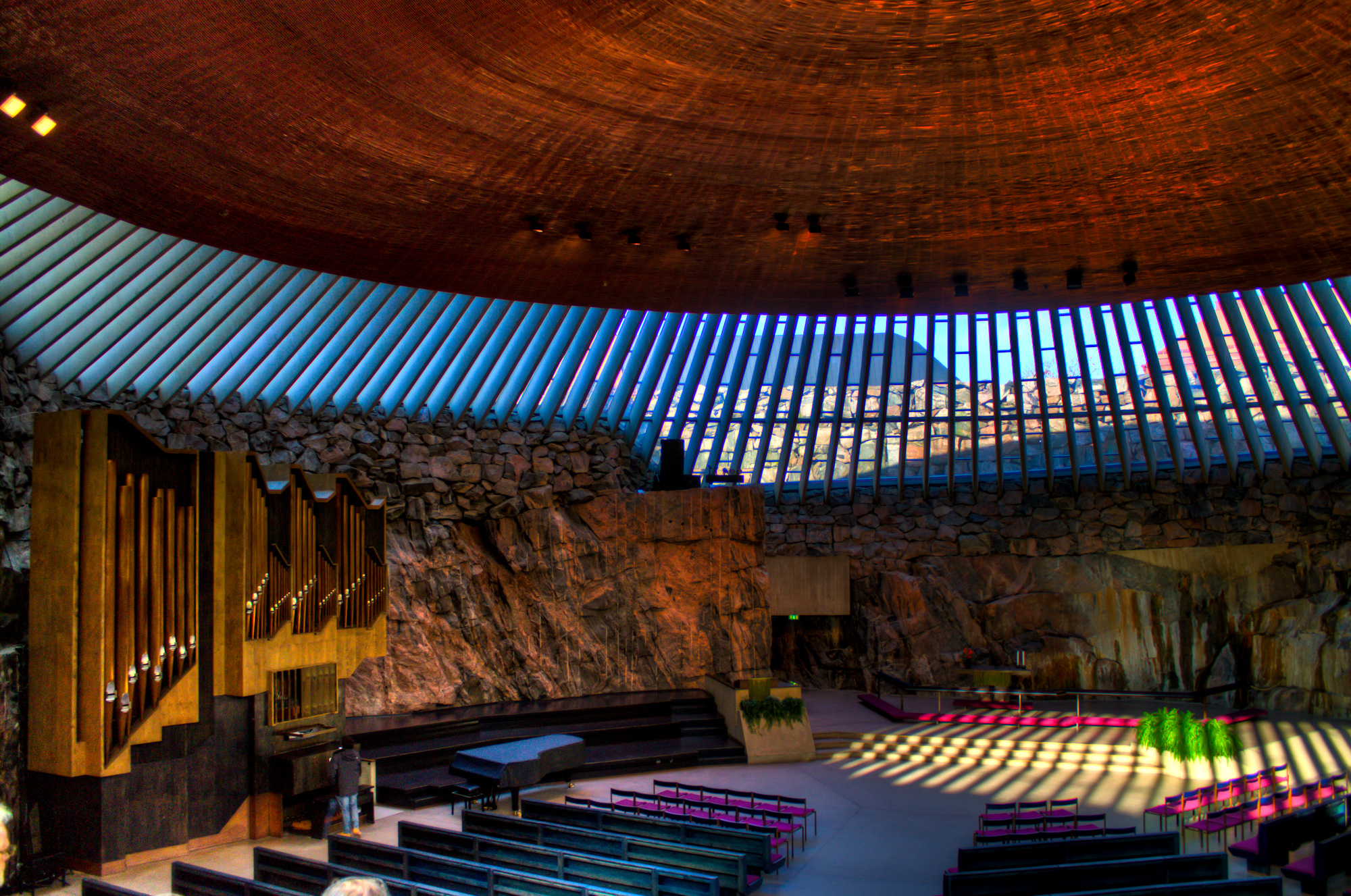 The Temppeliaukio Church in Helsinki, Finland